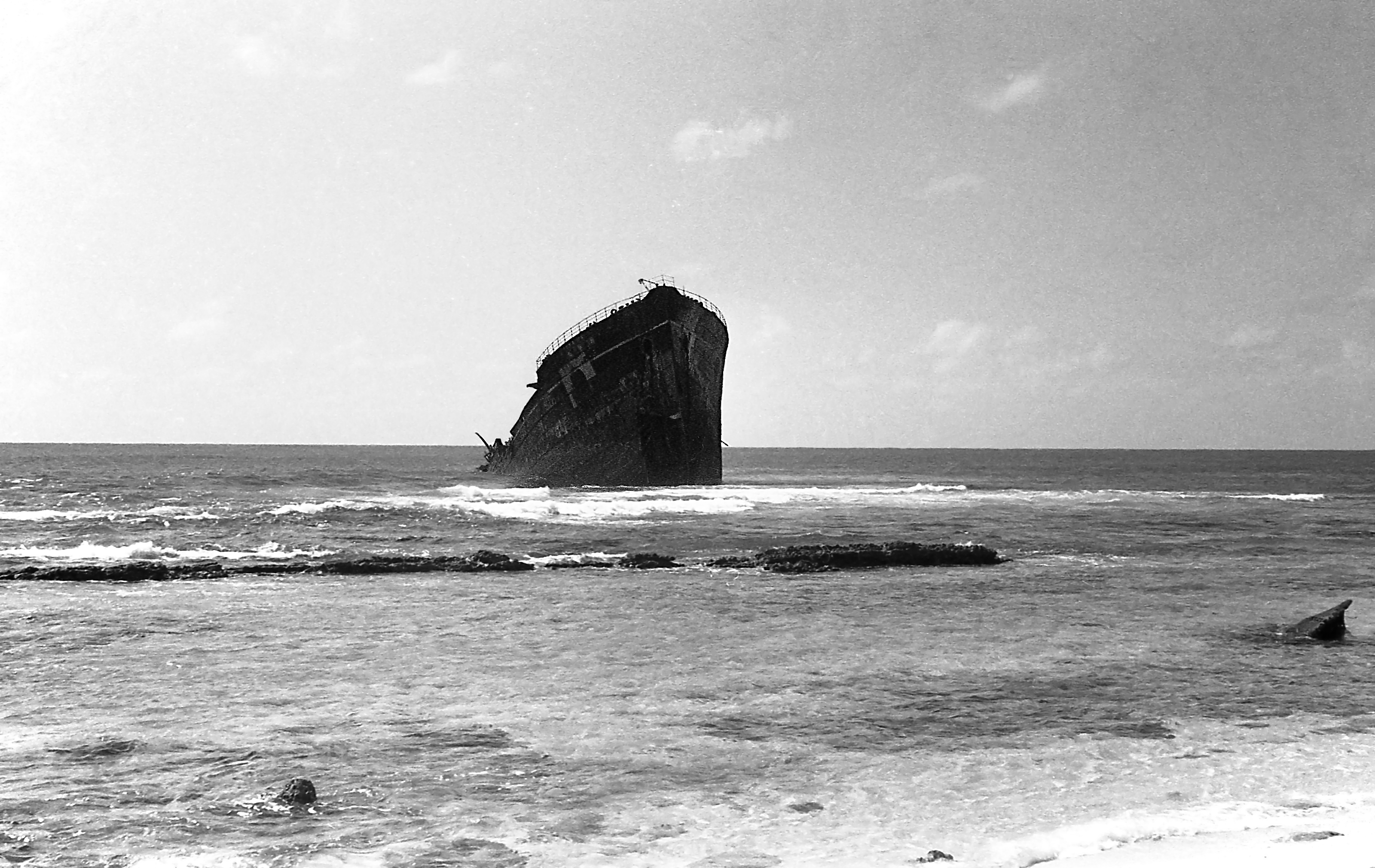 Photo of the wreck of the Japanese merchant ship Suwa Maru. It was beached after being torpedoed by American submarine USS Tunny in 1943. Ship was attempting to bring supplies to the Japanese Army on Wake Island.